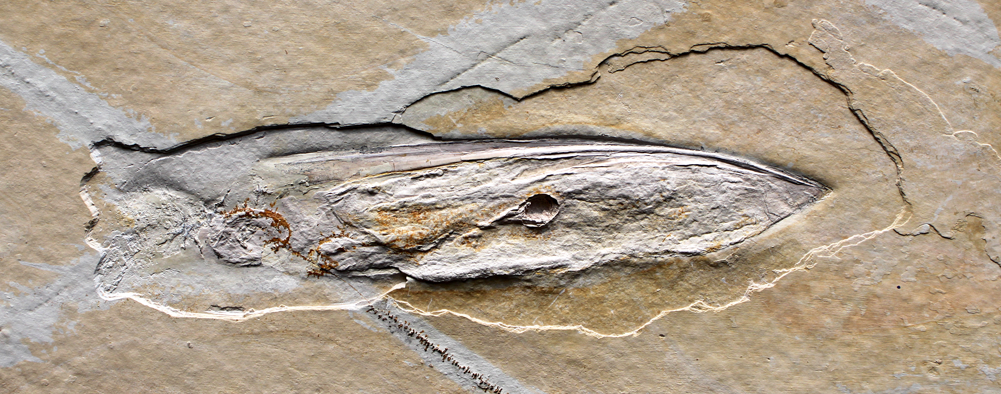 Solnhofen Plattenkalk, Tithonian, Upper Jurassic, Solnhofen; Museum für Naturkunde Berlin.